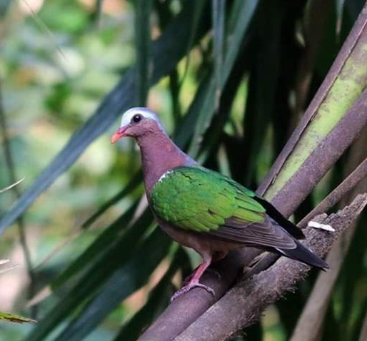 Emarald dove